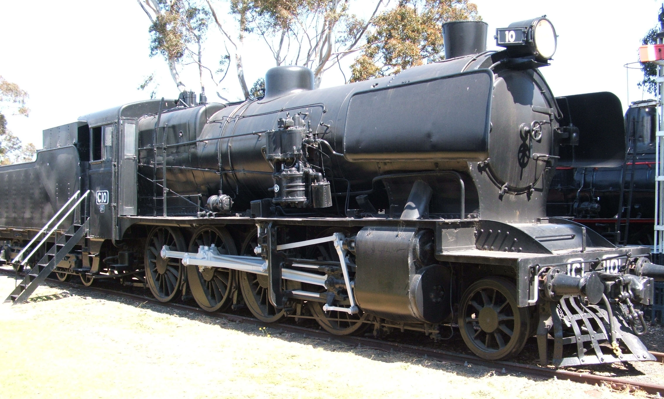 Victorian Railways C class 2-8-0 locomotive No. C 10, as preserved at the Australian Railway Historical Society North Williamstown Railway Museum. photo by zzrbiker